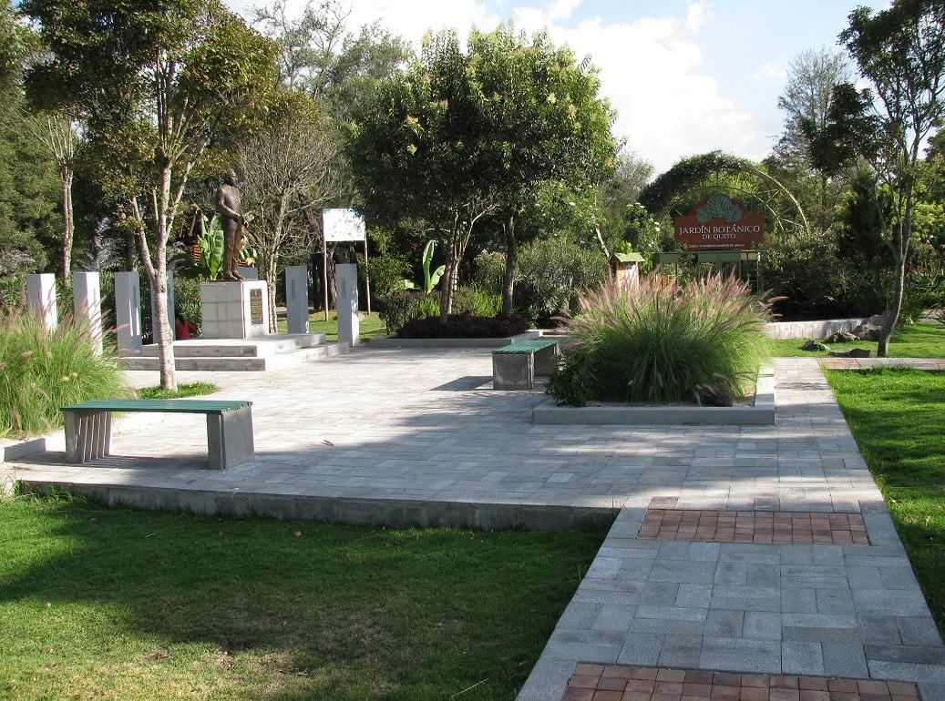 La Carolina Park, Botanic Garden entrance